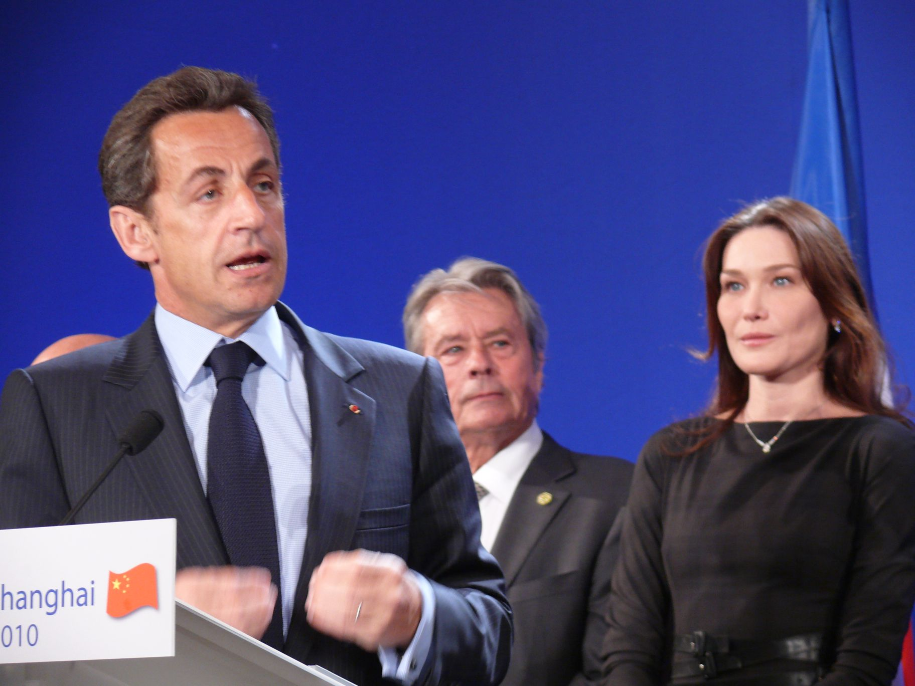 Meeting by President Nicolas Sarkozy on April 30th 2010 at Hyatt on the Bund Hotel in Shanghai (China)